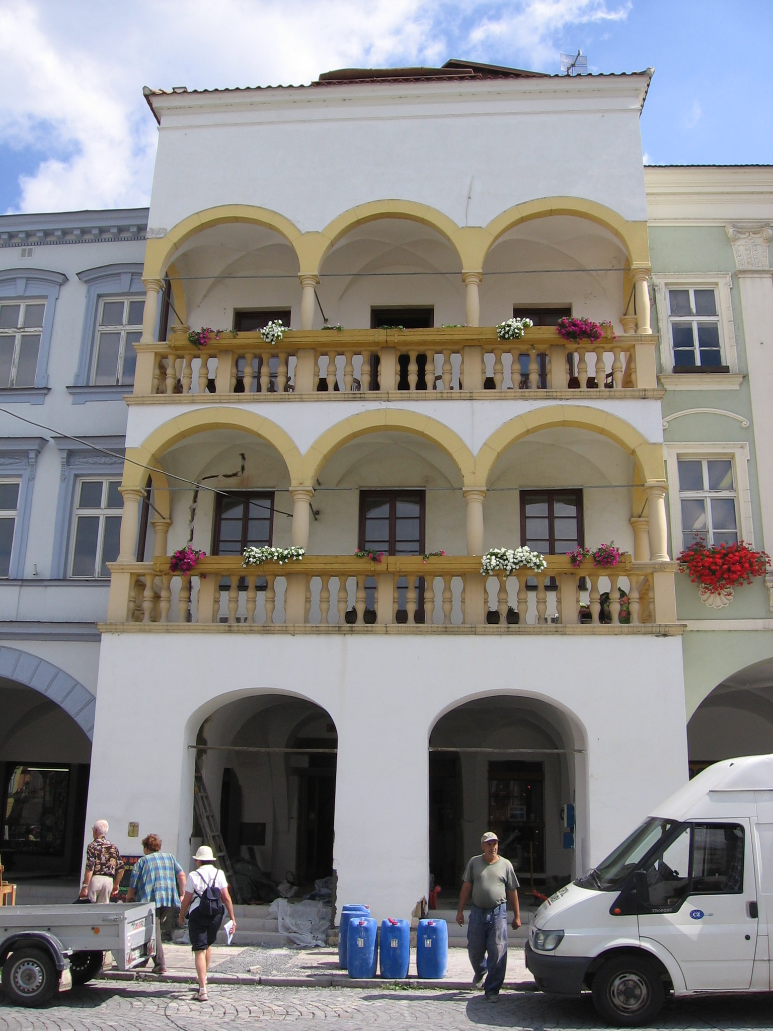 "Old Post", one of the houses on the Masaryk square in Nový Jičín, Czech Republic.